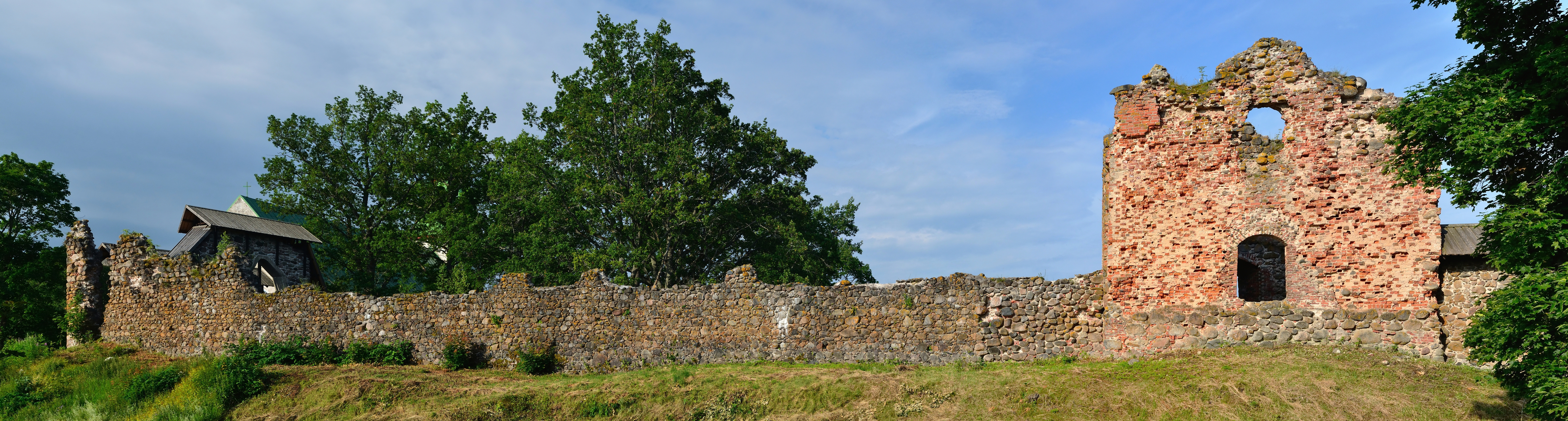 Karksi castle ruins